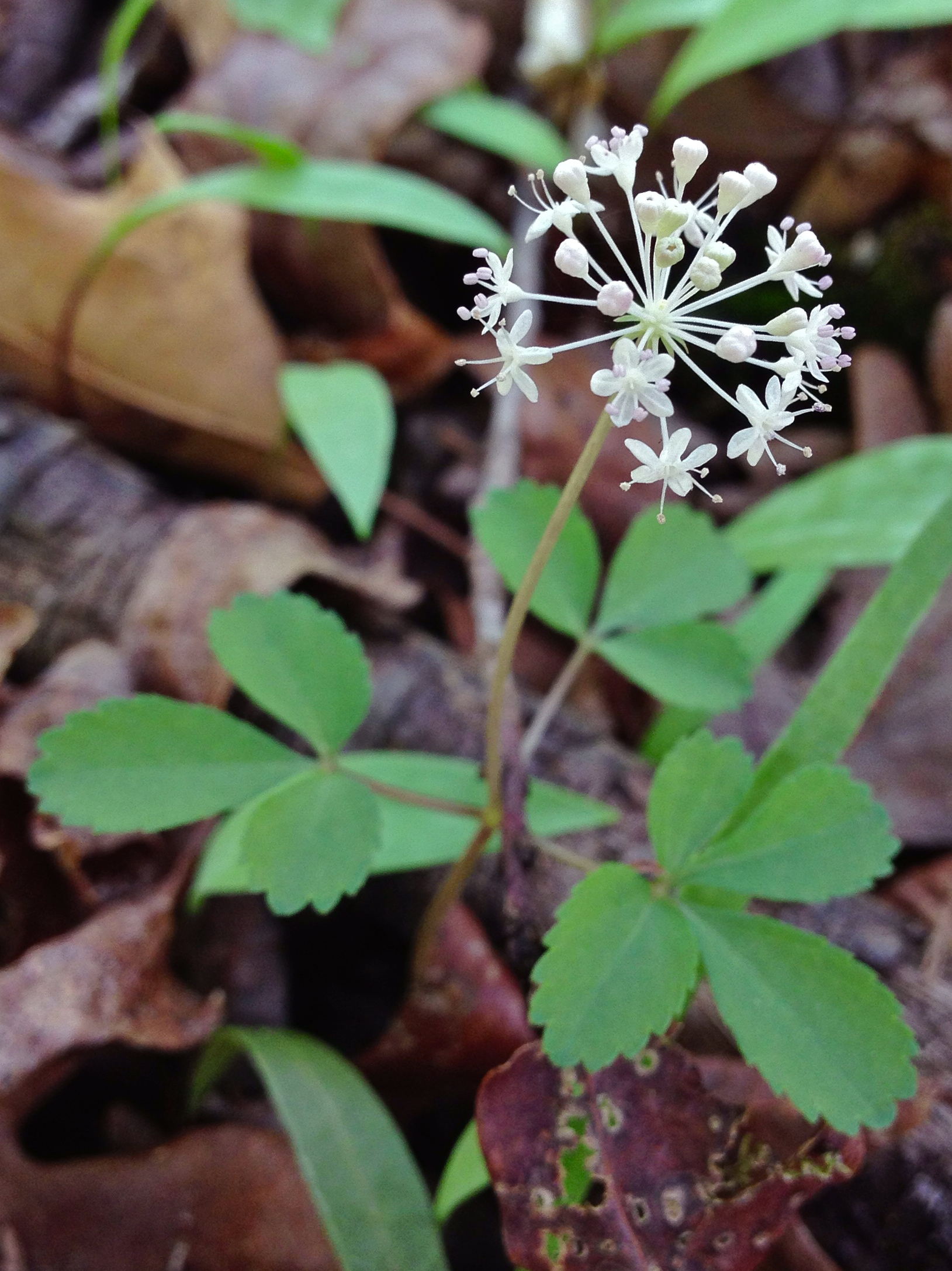 Photo of Panax trifolius in flower. This is a native plant growing wild in Scotts Run Nature Preserve, Fairfax county Virginia, USA. This species is a member of the Araliaceae family.